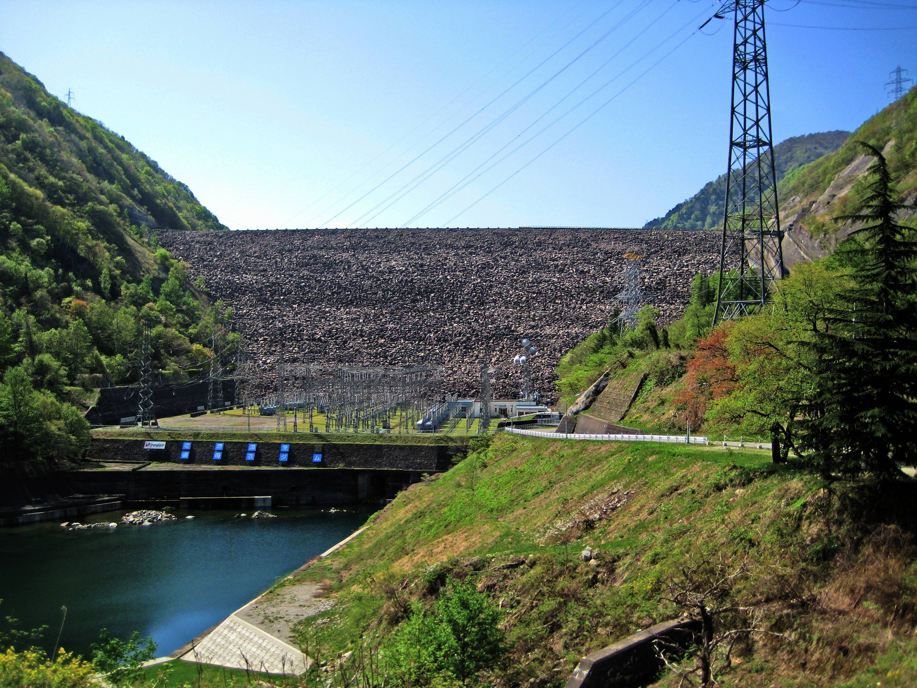 Miboro Dam.